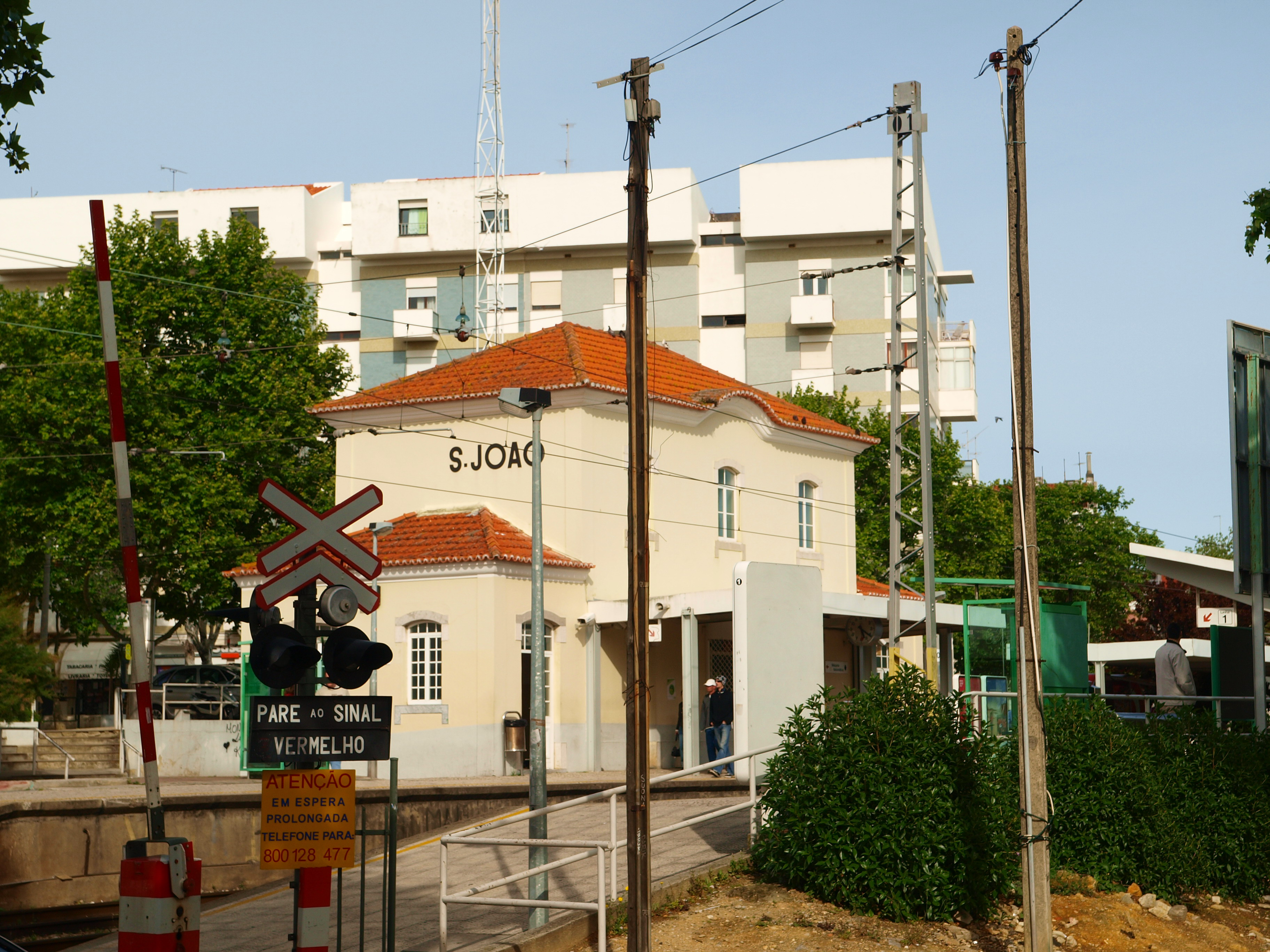 São João train station, Cascais railway, Portugal.